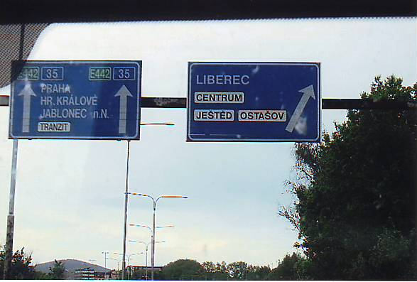 Description Foto E422 bij Liberec Date20 May 2006SourceOwn workAuthorM. van der BroekPermission (Reusing this file) GFDL Foto E422 bij Liberec